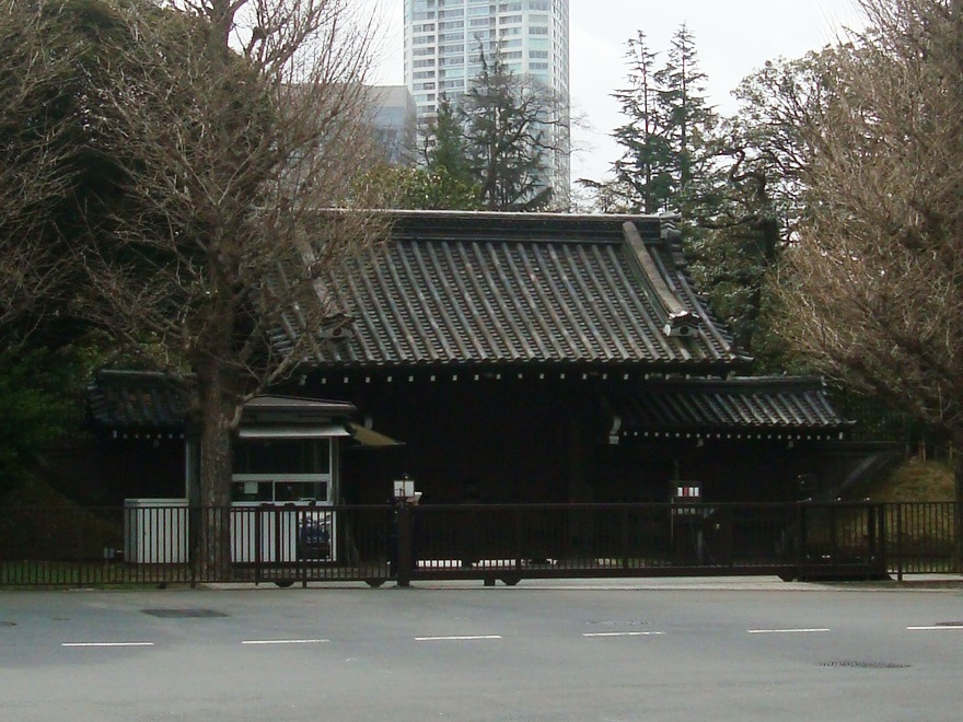 Samegahashi-mon Gate of Akasaka imperial estate, Moto-akasaka, Minato city, Tokyo